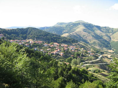 View of Kleisoura, Greece